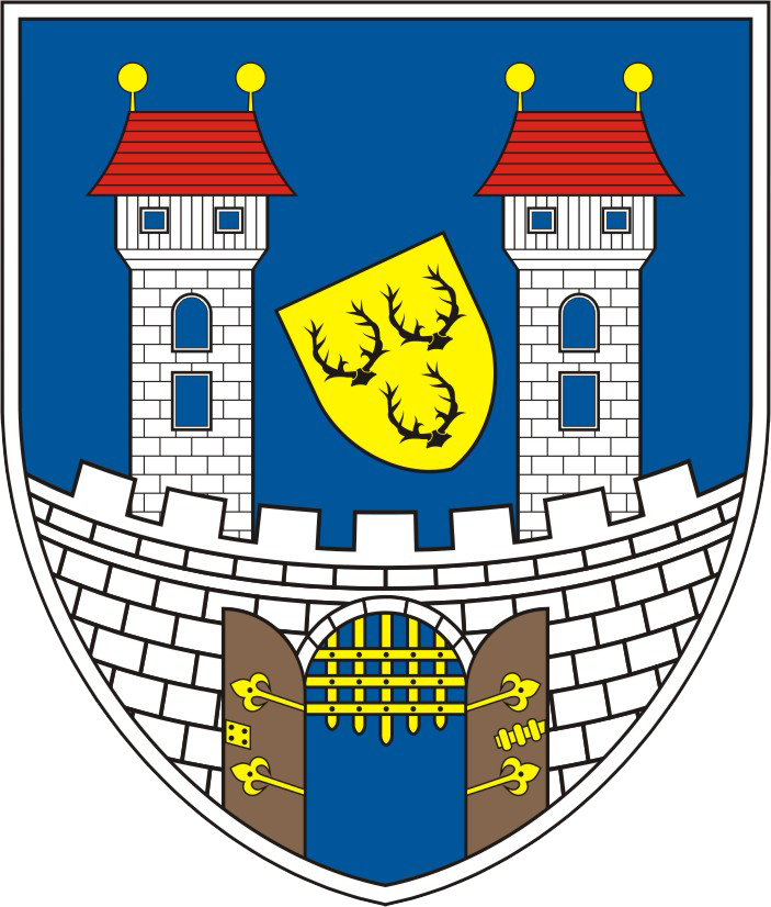 Coat of arms of Pobořany, Czech Republic.